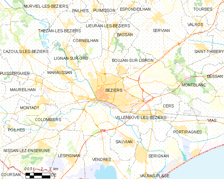 Map commune FR insee code 34032.png - Béziers